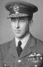 Photograph of Don Bennett.